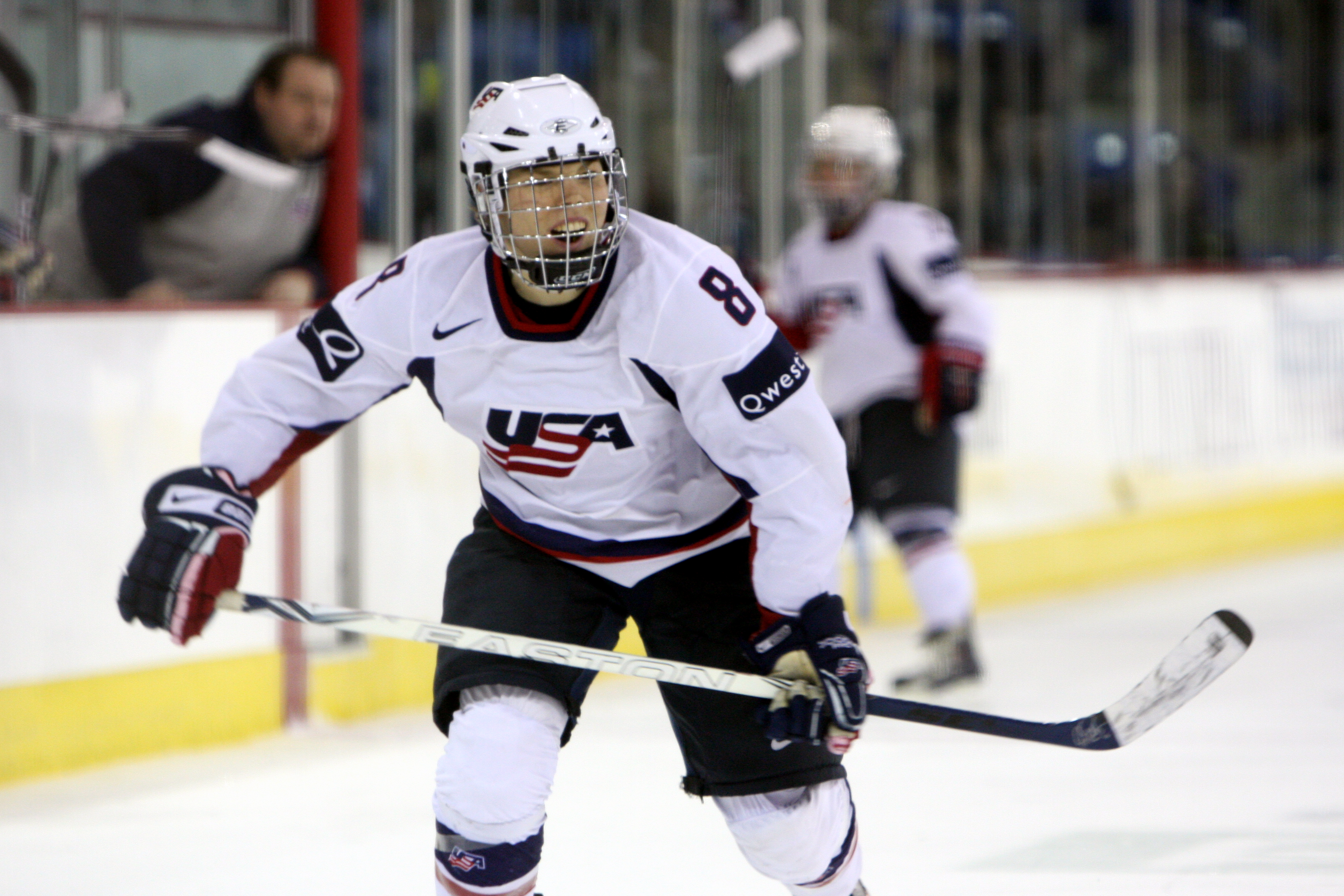 United States defenseman Caitlin Cahow in a game against the ECAC All-Stars on January 3, 2010.